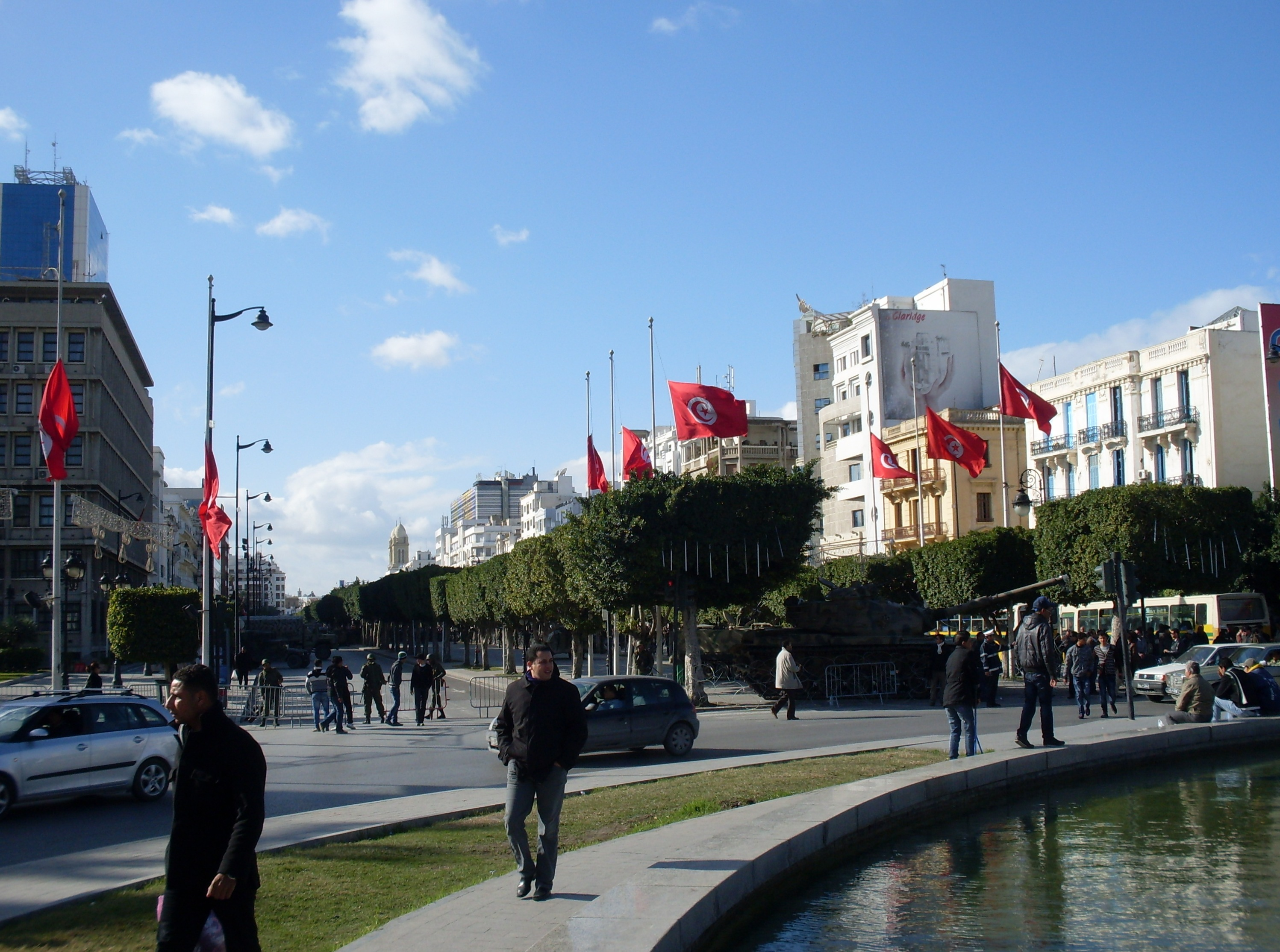 National flags flying at half staff on the Habib Bourguiba Lane (14th of January Square) following the death of martyrs of the Jasmine Revolution in Tunisia in 2011. The Cathedral of Tunis, on the Habib Bourguiba Lane, can be seen on the skyline